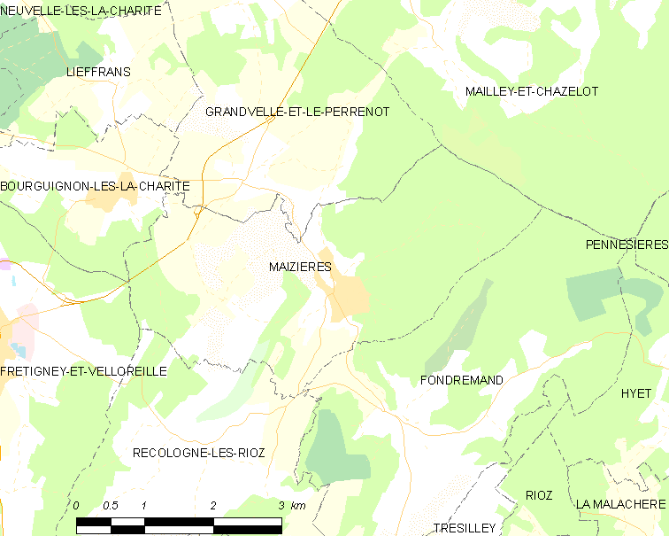 Map of French municipality